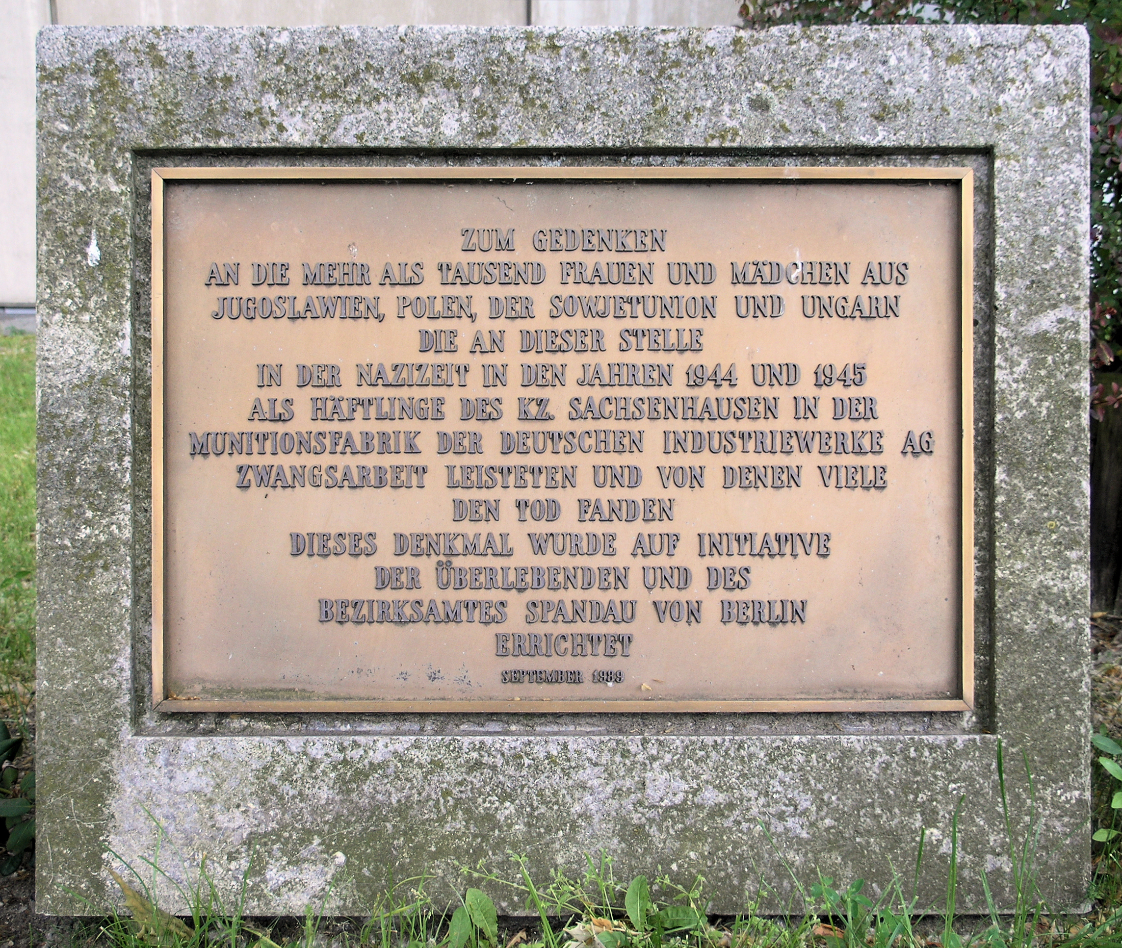 Memorial plaque, Deutsche Industriewerke, Pichelswerderstraße 9, Berlin-Spandau, Germany